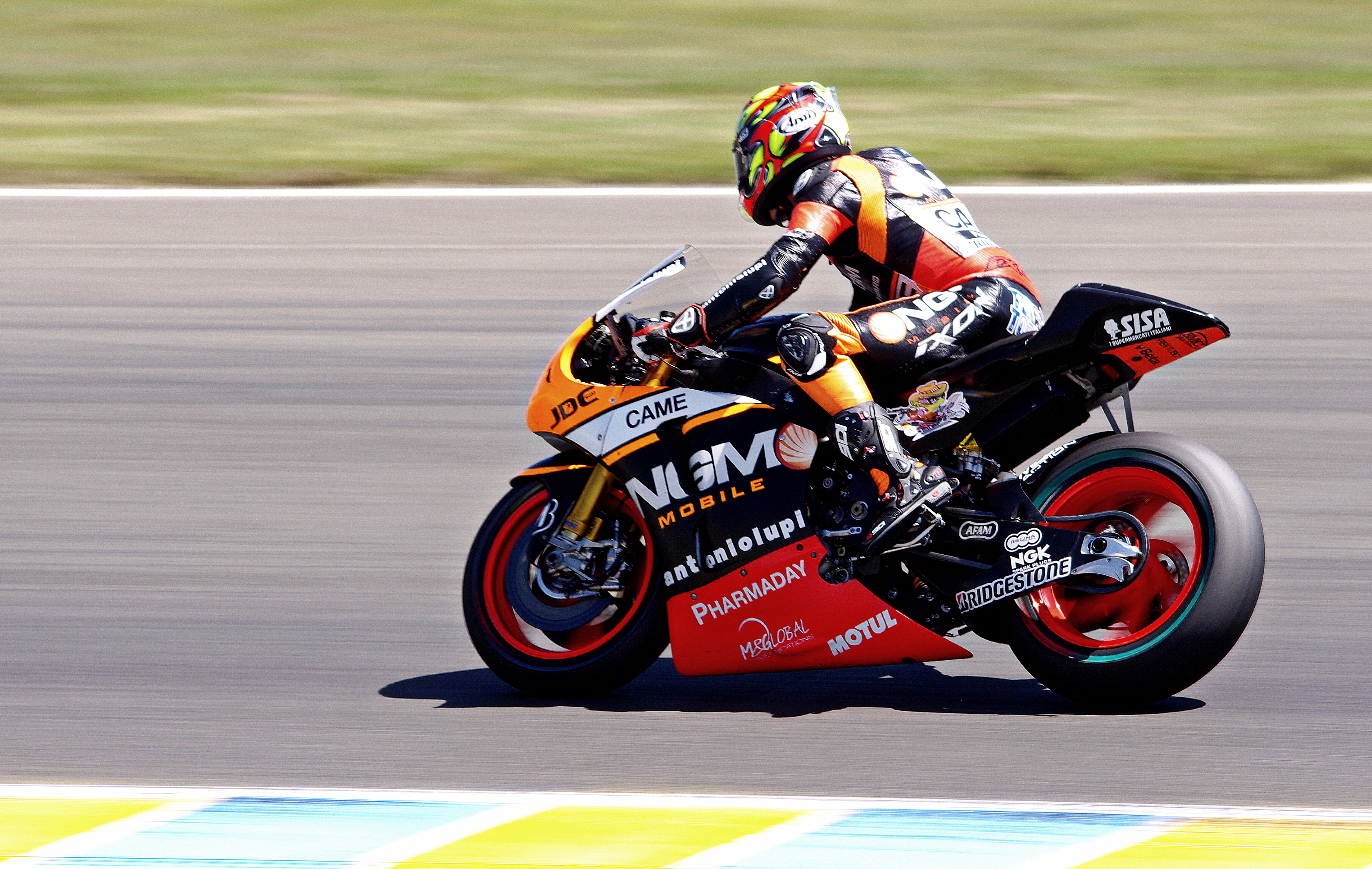 Colin EDWARDS - NGM Forward Racing - MotoGP 2014 - Le Mans 2014 french motorcycle Grand Prix at Le Mans Bugatti Circuit